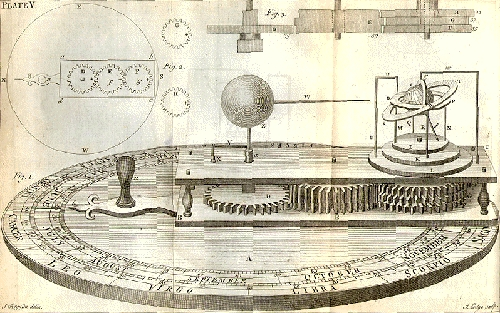 James Ferguson illustration of Orrery